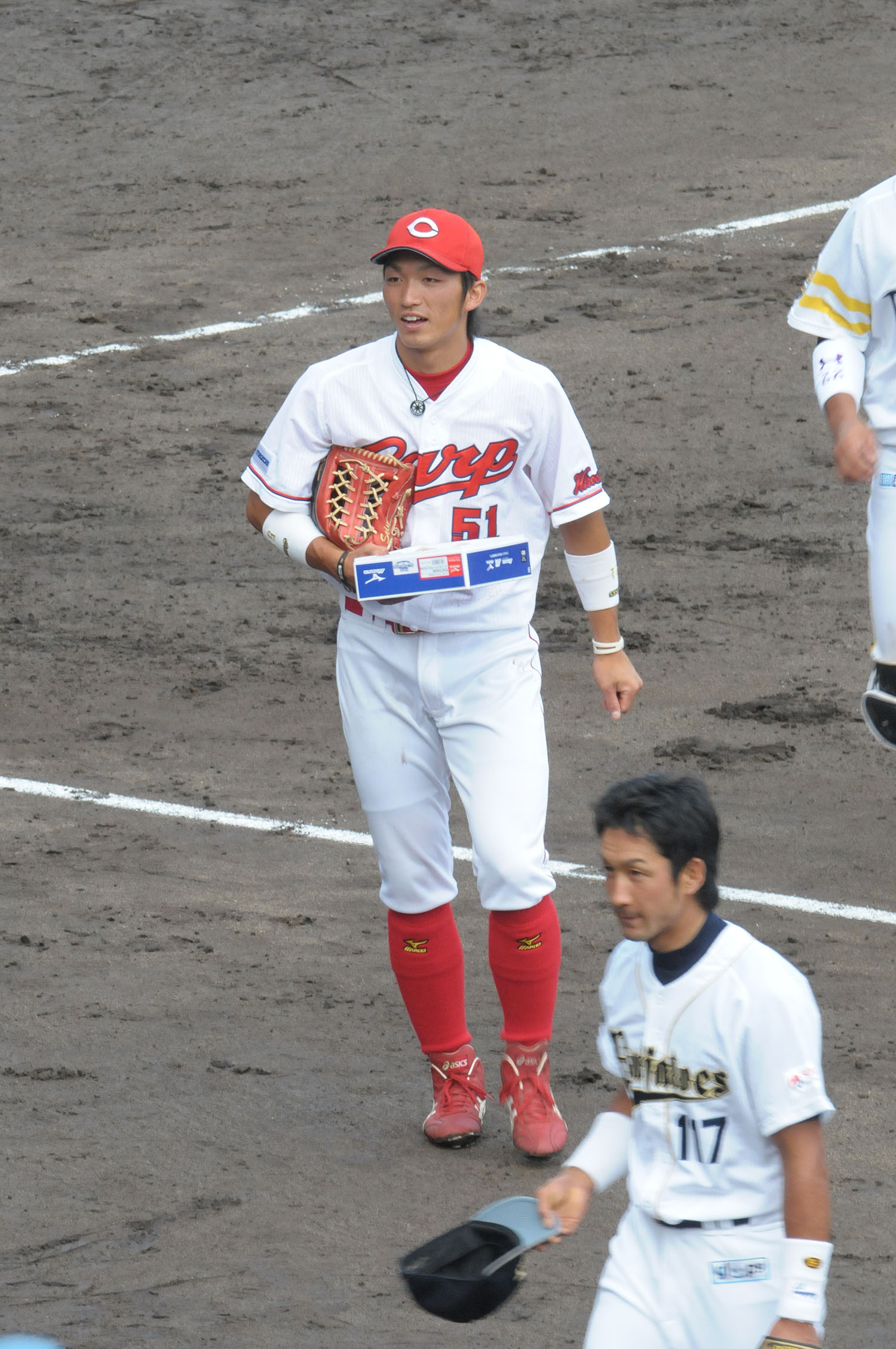 Seiya Suzuki, infielder of the Hiroshima Toyo Carp, at Akita Prefectural Baseball Stadium.